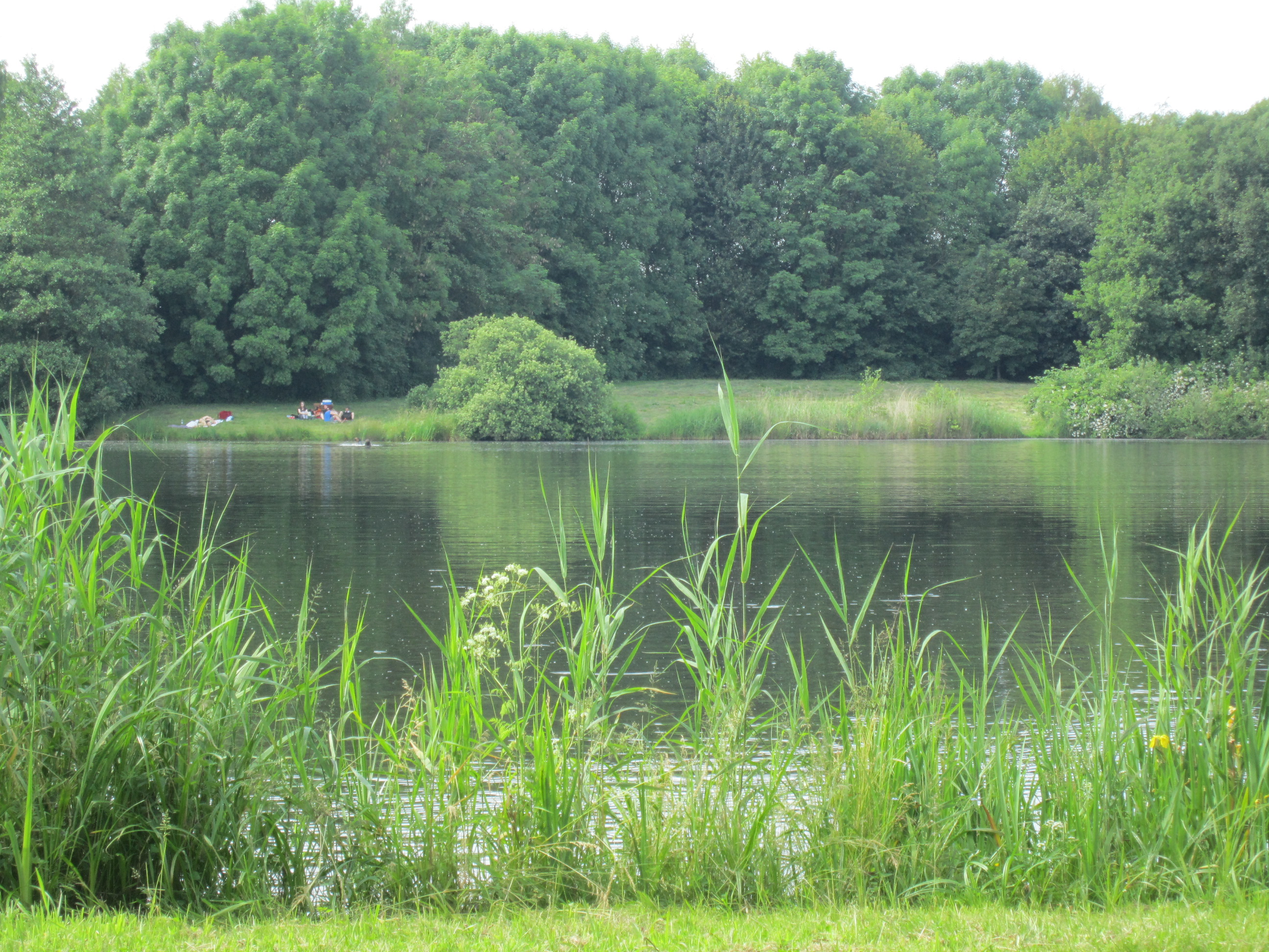 Sulingen Town Lake